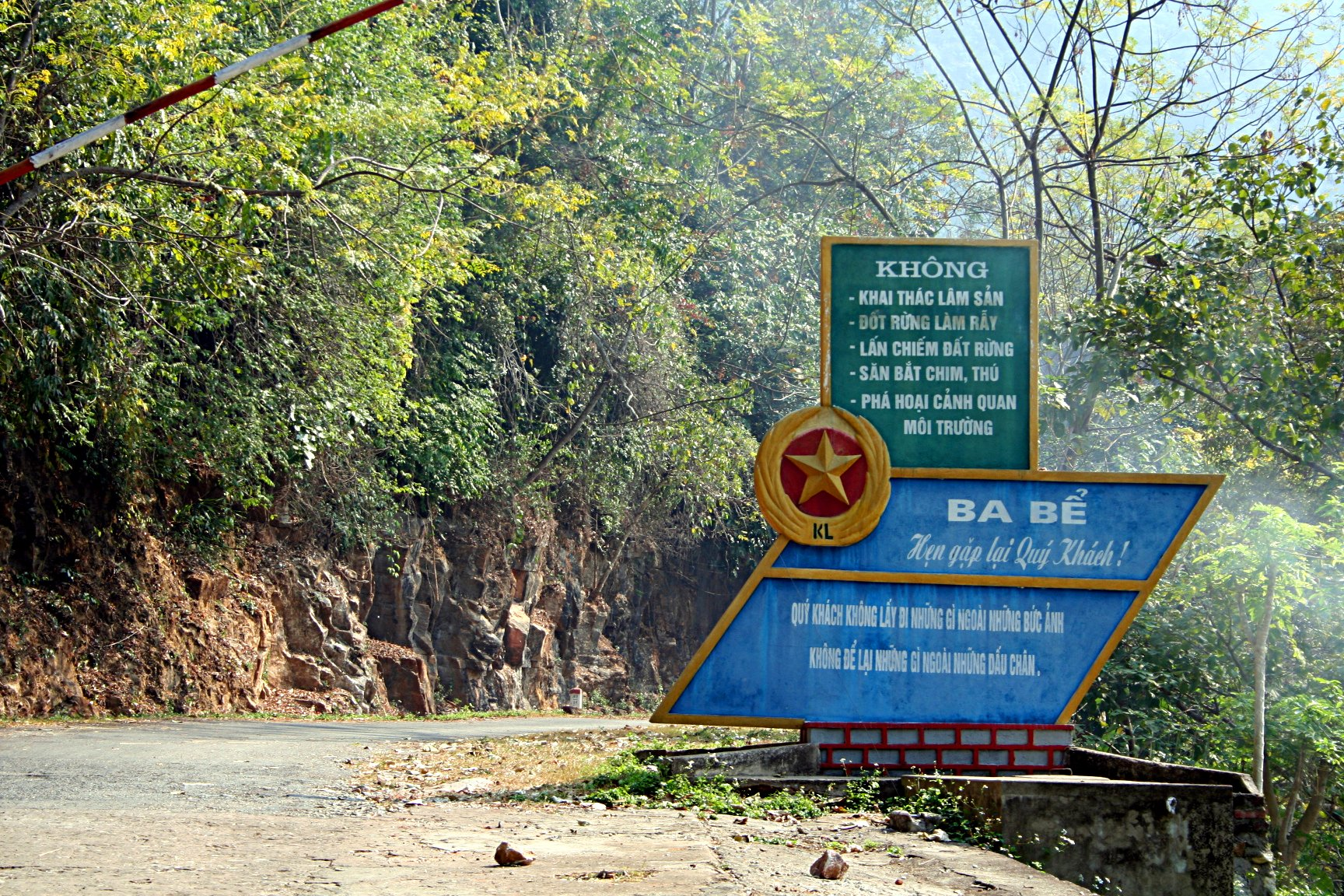 Photograph of sign at entrance to Ba Bê Lake in Ba Bê National Park in Bắc Kạn Province, Northeast Vietnam during the dry season taken by Rolf Müller